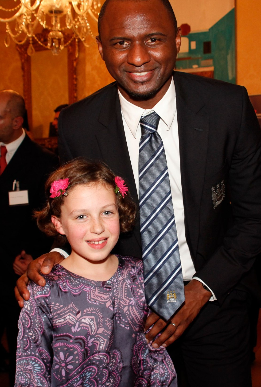 Schoolgirl Lottie Gibson, aged ten, from Norwich, pictured with football legends Patrick Vieira at the launch of 'Tackle Famine', a partnership between the Premier League and the Disasters Emergency Committee (DEC), to raise money for the DEC East Africa Crisis Appeal, at No. 11 Downing Street. From 26-28 November 2011, Premier League football grounds up and down the country will donate free advertising space to raise funds for the DEC appeal. Football fans will be encouraged to Tackle Famine by texting FOOD to 70000, to donate £5 to the appeal. The UK Government has helped set up the partnership. British aid from the government is already helping to feed more than 2.4million people in the drought-stricken Horn of Africa region. The DEC is a charity that brings together 14 leading UK aid agencies, to raise funds when there is a major emergency in a poorer country overseas. The DEC appeal has already raised more than £72million in donations from the British public, but more funds are still needed. Find out more at: Picture: Russell Watkins/DFID Terms of use This image is posted under a Creative Commons - Attribution Licence, in accordance with the Open Government Licence. You are free to embed, download or otherwise re-use it, as long as you credit the source as 'Russell Watkins/DFID'.